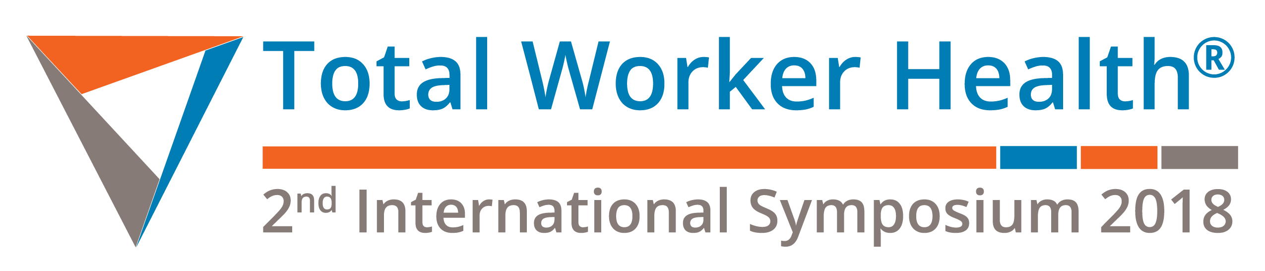 Enduring branding for the International Symposium to Advance Total Worker Health